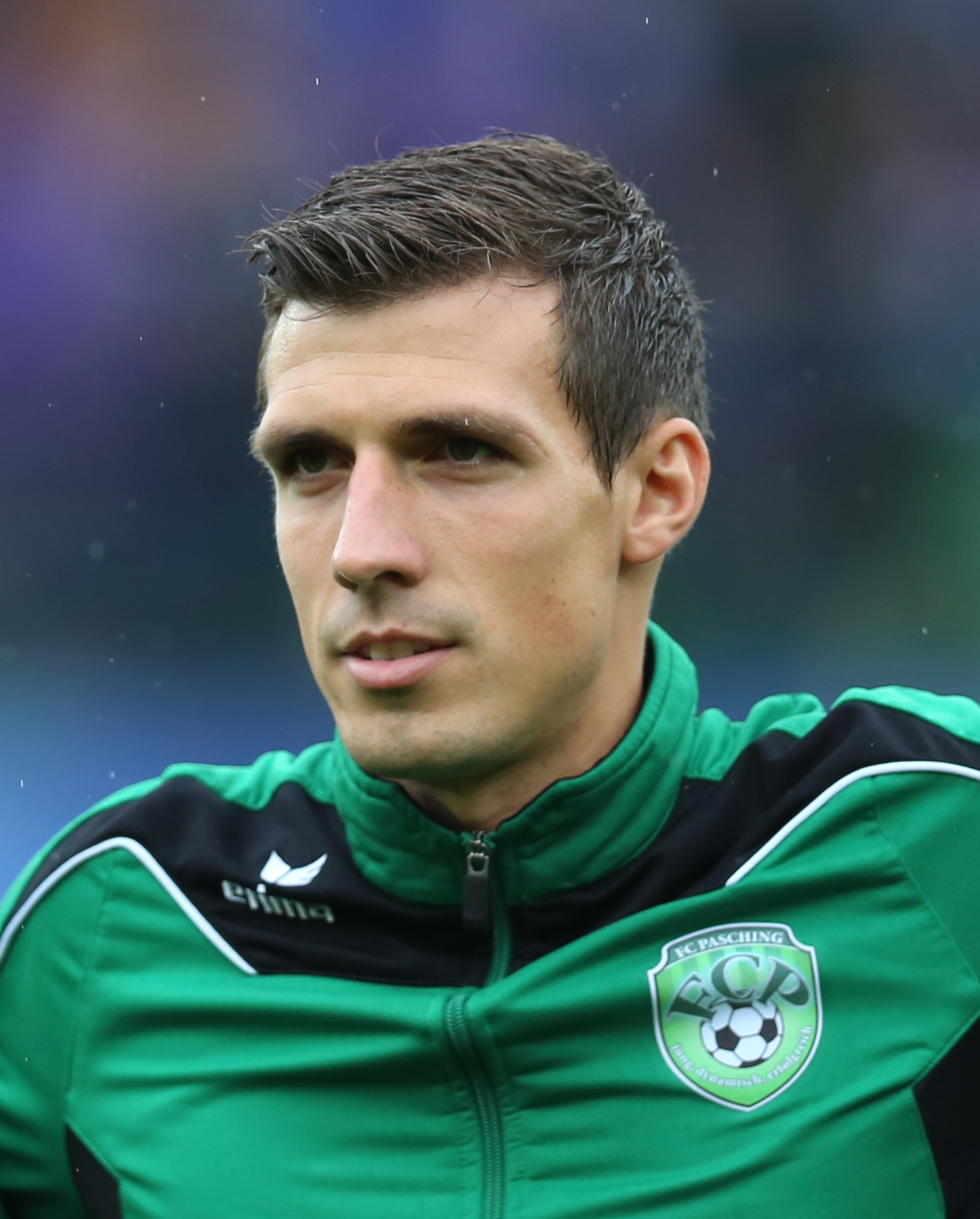 ÖFB-Cupfinale am 30. Mai 2013 im Ernst-Happel-Stadion (FC Pasching gegen FK Austria Wien 1:0). Im Bild der Mittelfeldspieler Marco Perchtold (FC Pasching). The making of this work was supported by Wikimedia Austria. For other files made with the support of Wikimedia Austria, please see the category Supported by Wikimedia Österreich.